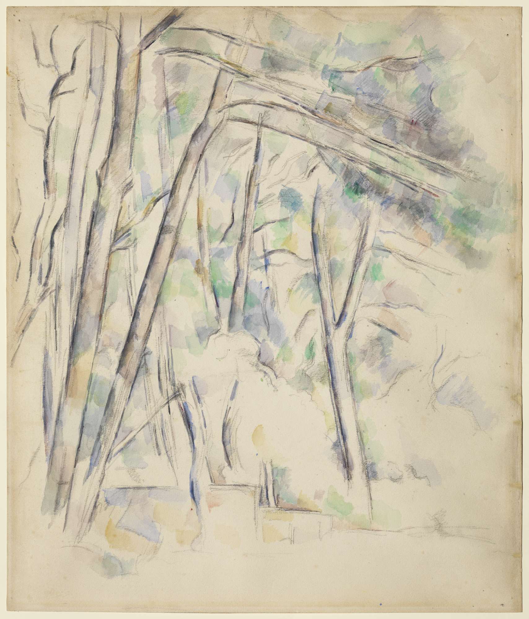 Paul Cézanne, French, 1839–1906 Cistern in the Park of Château Noir, 1895–1900 Watercolor and graphite on pale buff wove paper 50.6 x 43.4 cm. (19 15/16 x 17 1/16 in.) 76 x 67.5 cm. (29 15/16 x 26 9/16 in.) (framed) The Henry and Rose Pearlman Foundation, on long-term loan to the Princeton University Art Museum L.1988.62.34 Rewald (1983) 425 Venturi (1936) 1546